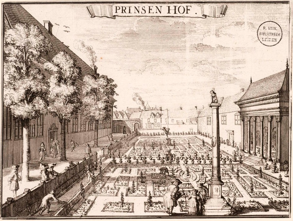 Prinsenhof, Haarlem